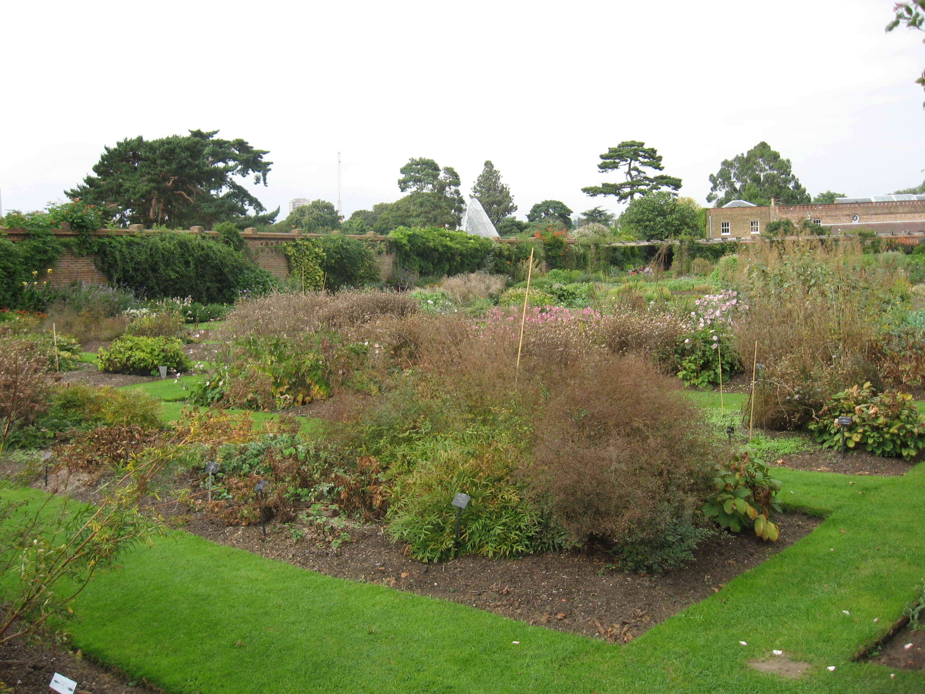 Kew Flower-beds